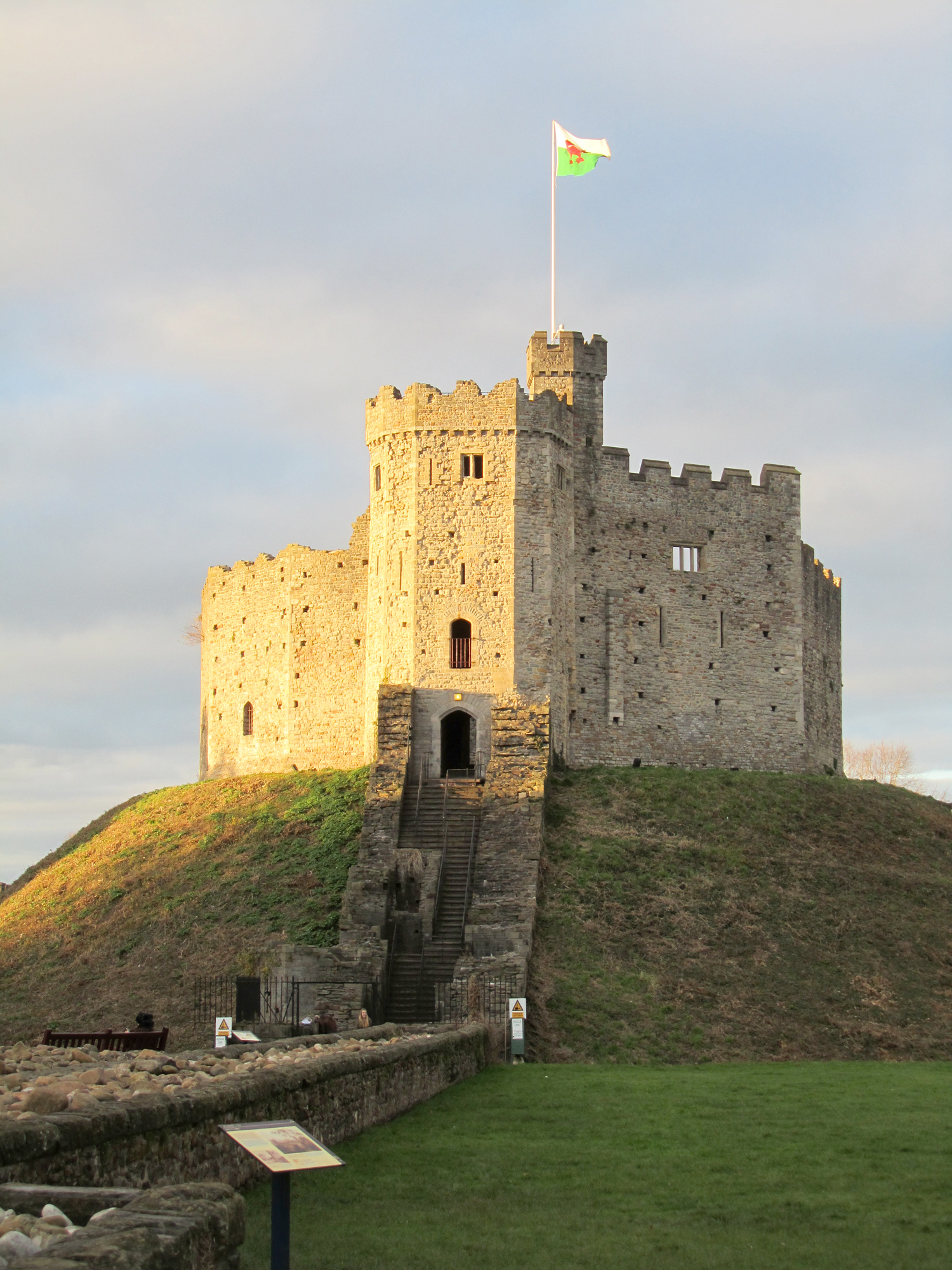 The Norman keep at Cardiff Castle